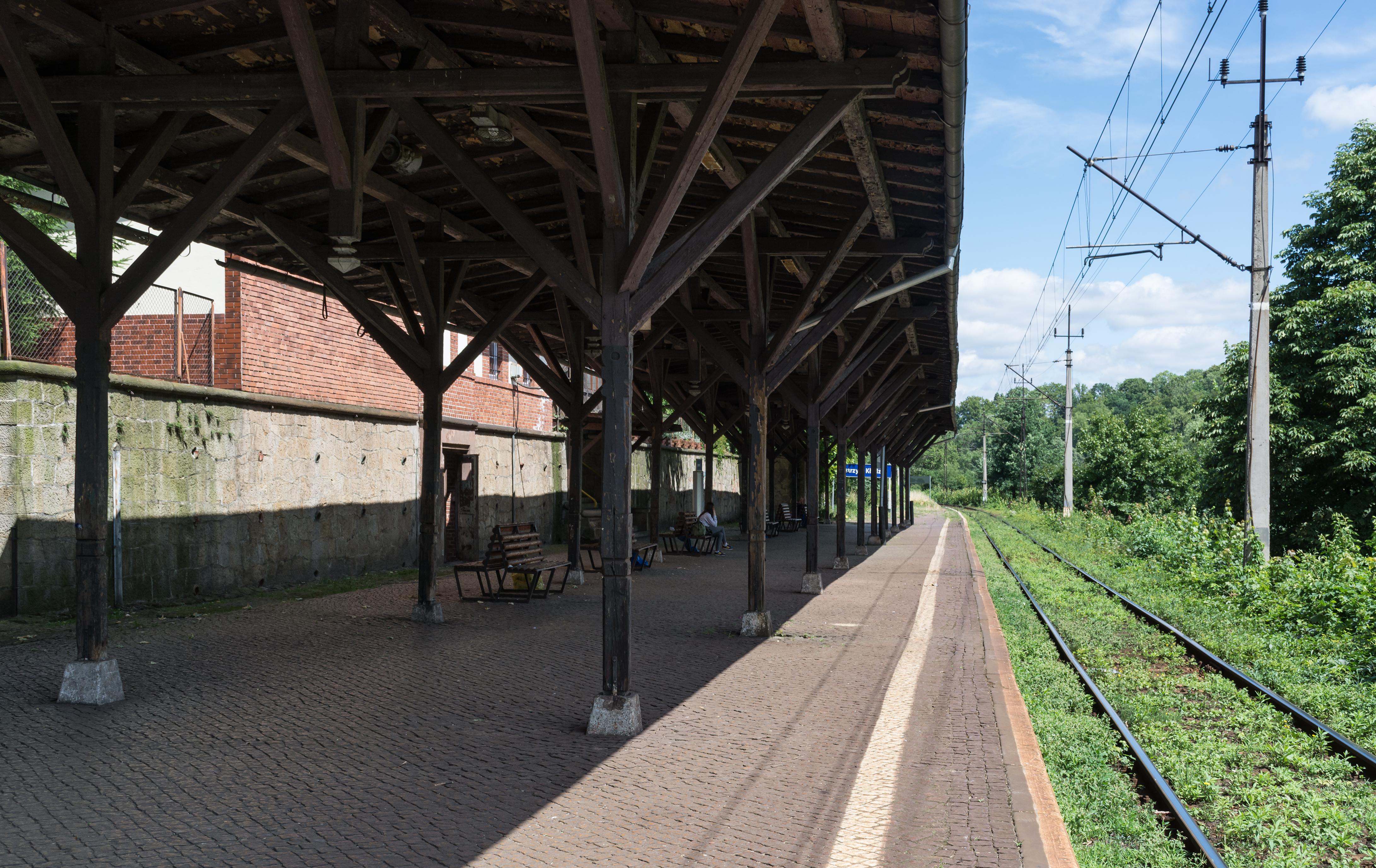 Bystrzyca Kłodzka train station